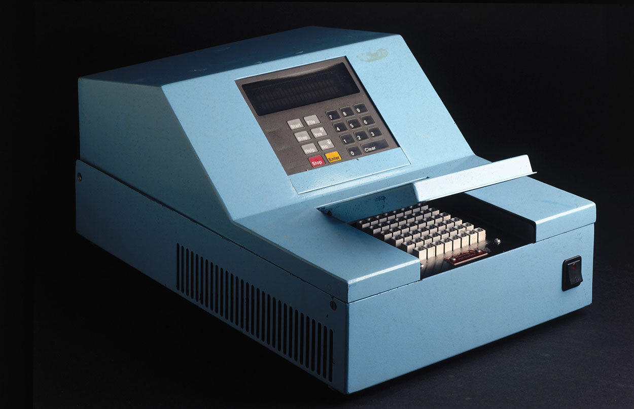 This machine automates the process of making large quantities of DNA from a tiny starting sample. Automation is central to huge research enterprises such as the Human Genome Project, which sequenced the 35,000 genes in human cells.